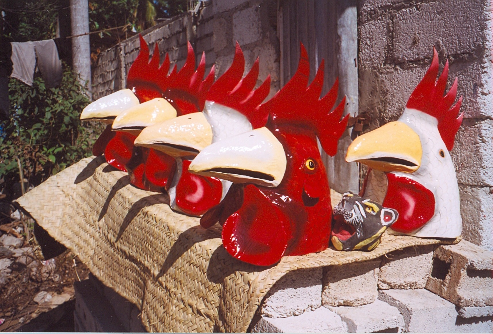 Mardi Gras Papier-mâché masks being prepared, Jacmel, Haiti.